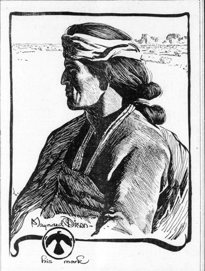 Maynard Dixon image of a Native American, shown at the "St. Francis" in 1904. Extracted from the pdf in the link shown. Brightness and contrast adjusted, converted to grayscale with GIMP